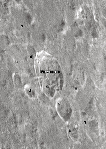 Newcomb lunar crater as seen from Earth with satellite craters labeled